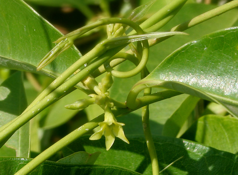 Cryptolepis buchananii (Syn. Trachelospermum cavaleriei)- Wax Leaved Climber, Indian sarsaparilla • Hindi: काला बेल kala bel, karanta • Marathi: दूध वेल dudh-vel, कावळी kavali • Tamil: பலகொடி pala koti • Malayalam: കടുപാല്വള്ളി katupaalvalli • Telugu: అడవిపాలతీగ adavipalatiga • Kannada: ಮೆದ್ಧಗೂಳಿ ಹಮ್ಬು medhaguli hambu • Oriya: Maloti • Sanskrit: कृष्णसारिव krishnasariva- in Herbal Garden, in Rangareddy district of Andhra Pradesh, India.